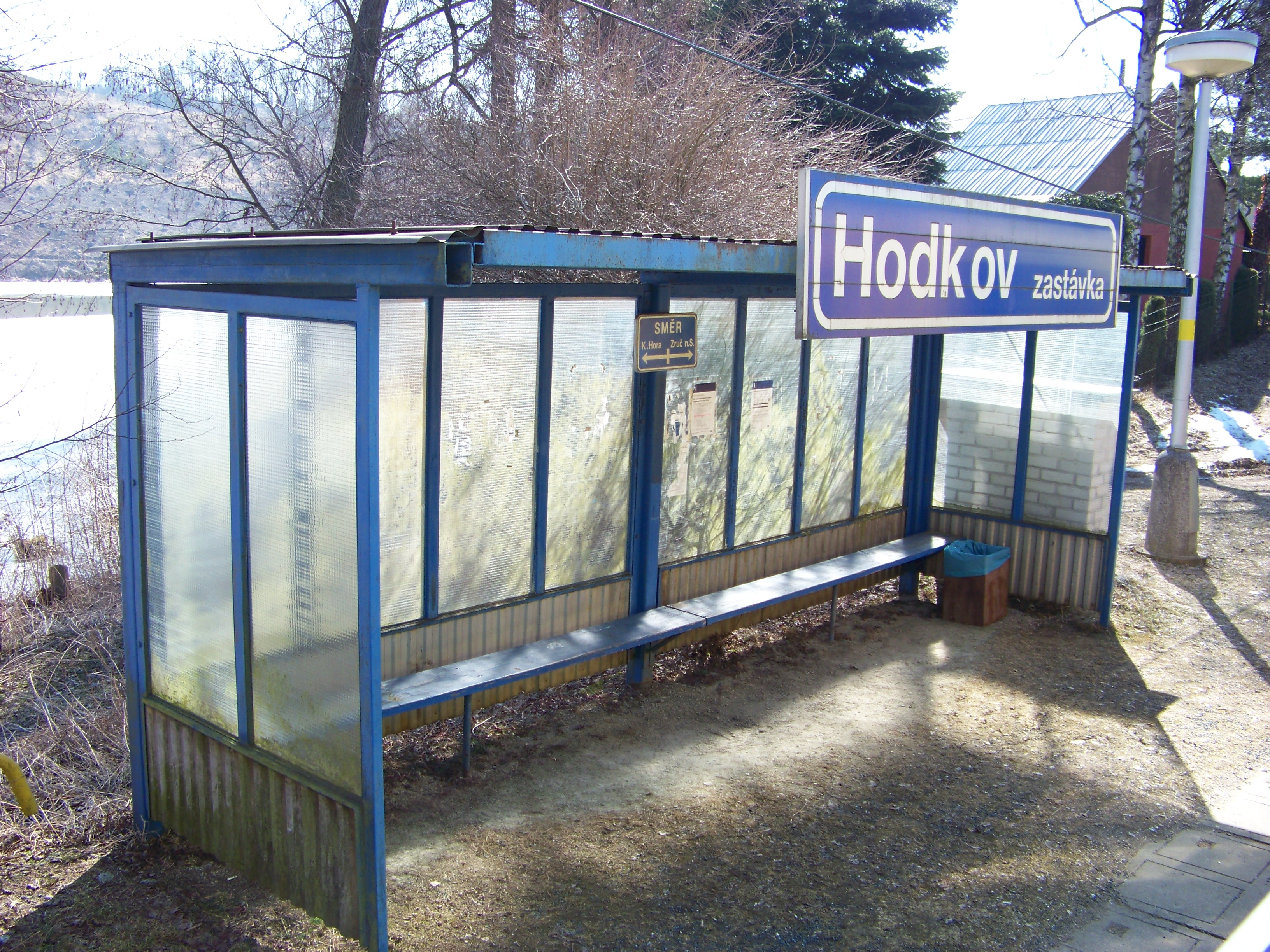 Zbraslavice-Hodkov, Kutná Hora District, Central Bohemian Region, the Czech Republic. Train stop Hodkov zastávka.